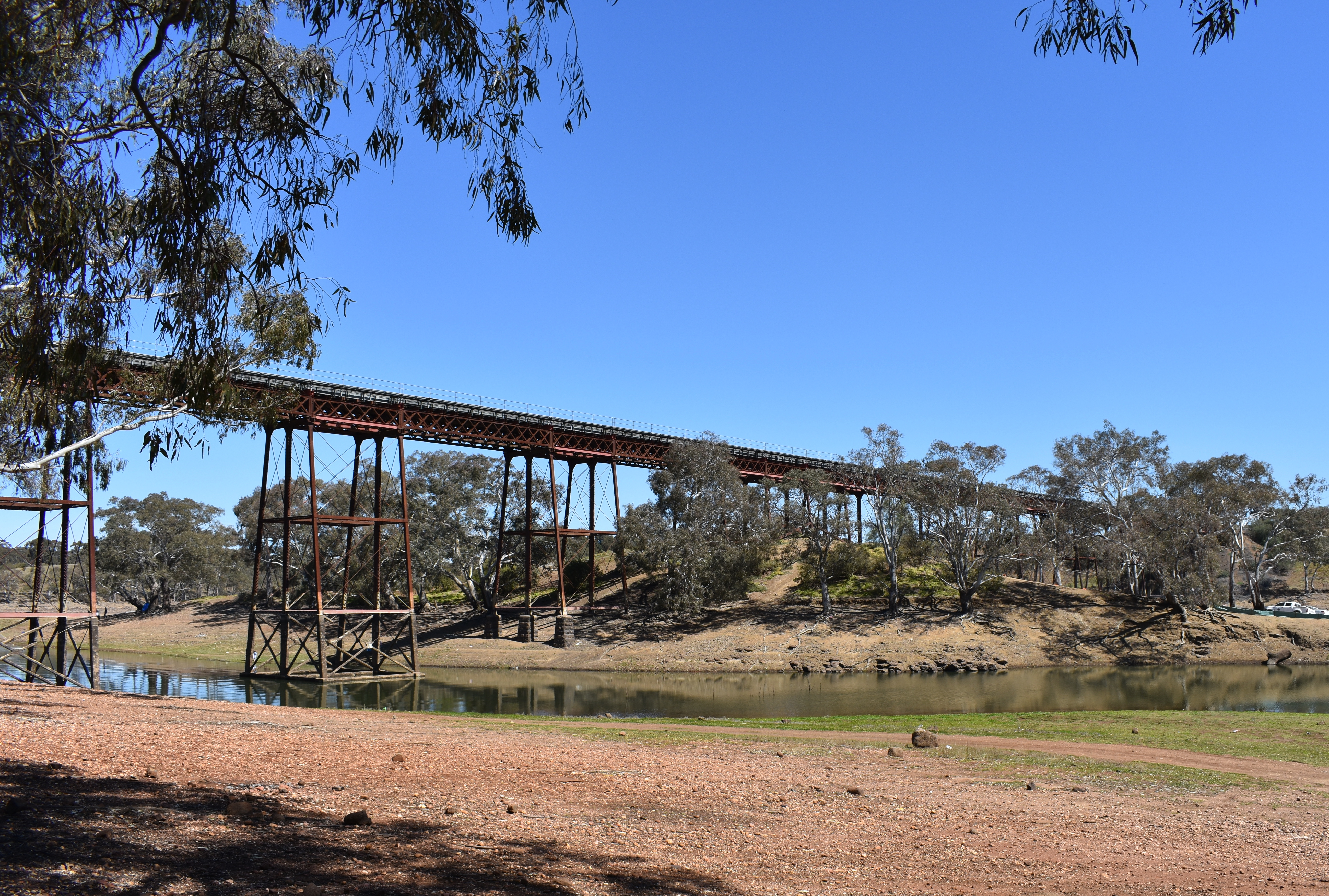 Melton Viaduct carrying the Ballarat V/Line rail service across Melton Reservoir